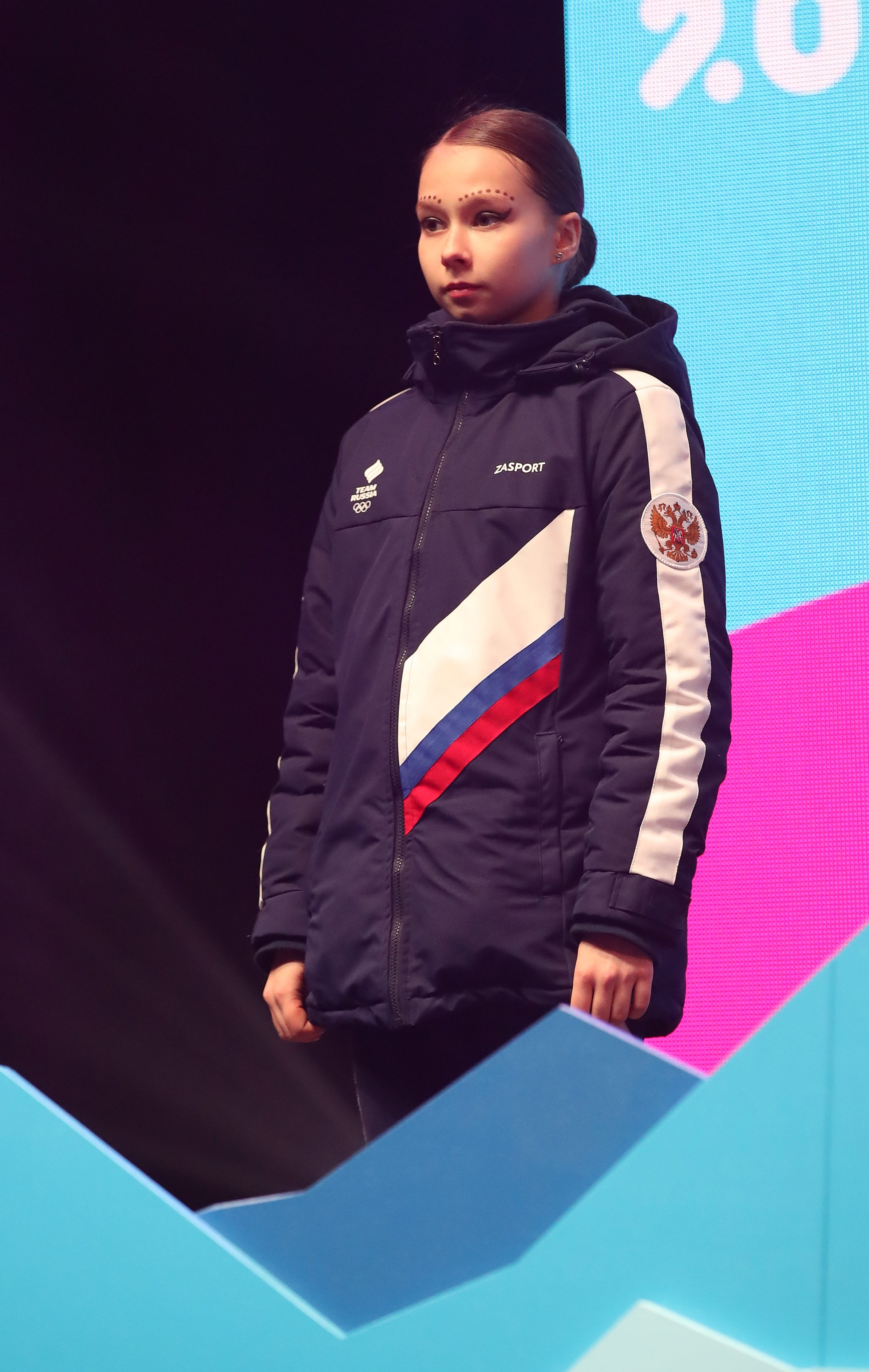 Medal ceremony of Figure skating – Women's Single Skating at the 2020 Winter Youth Olympics in Lausanne on 13 January 2020.